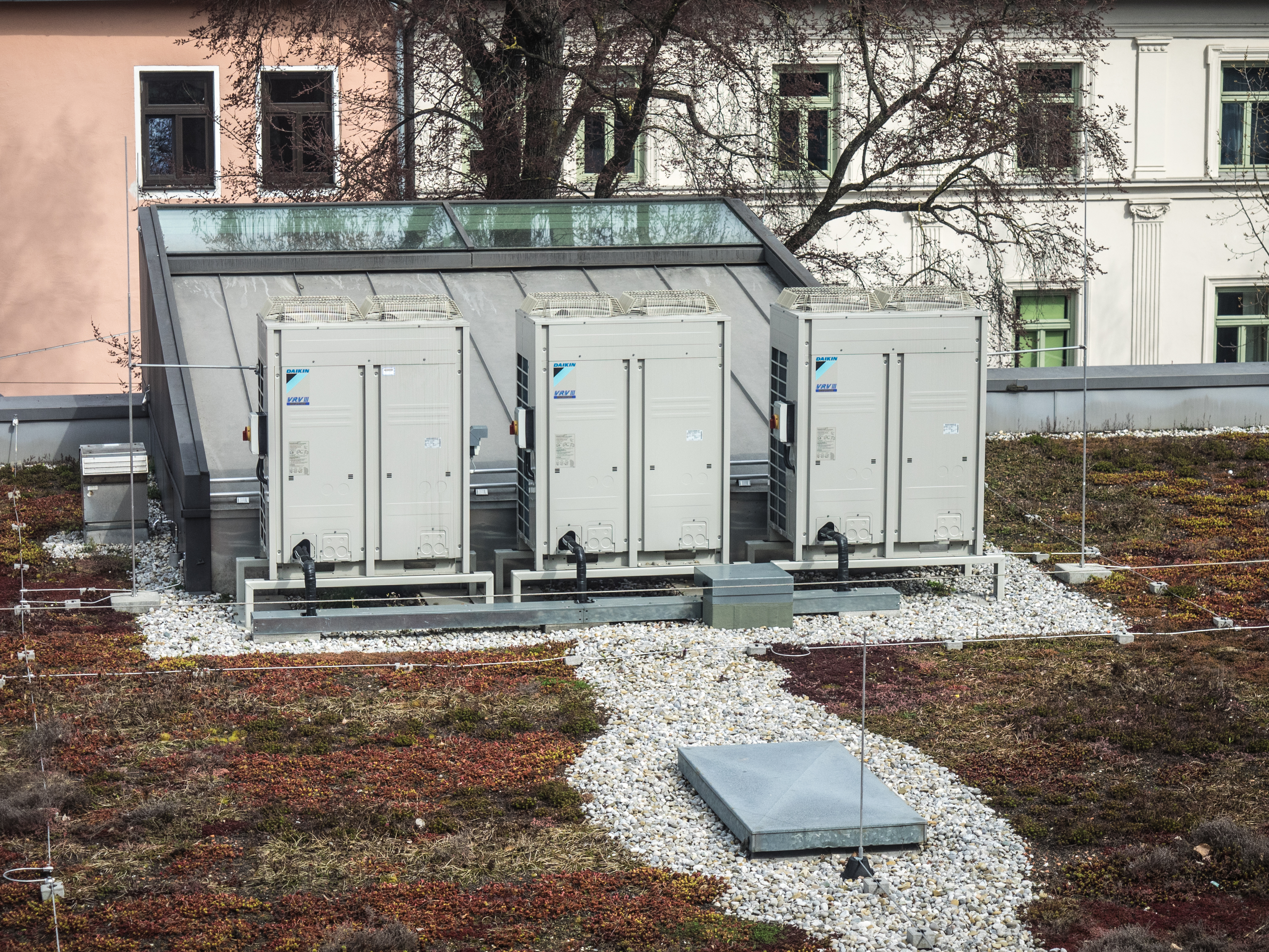 Array of external AC units